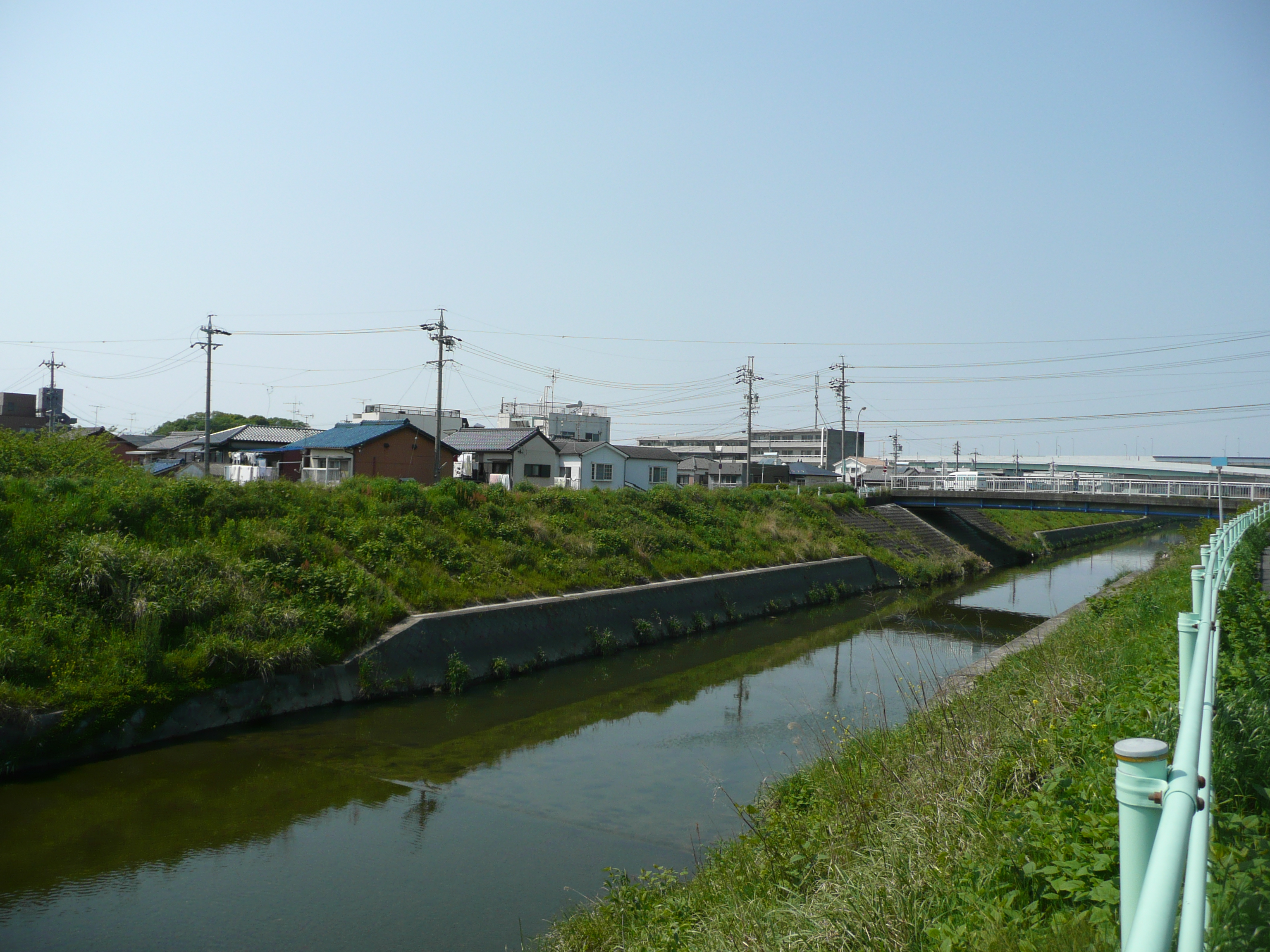 勝川線にあった鉄橋跡